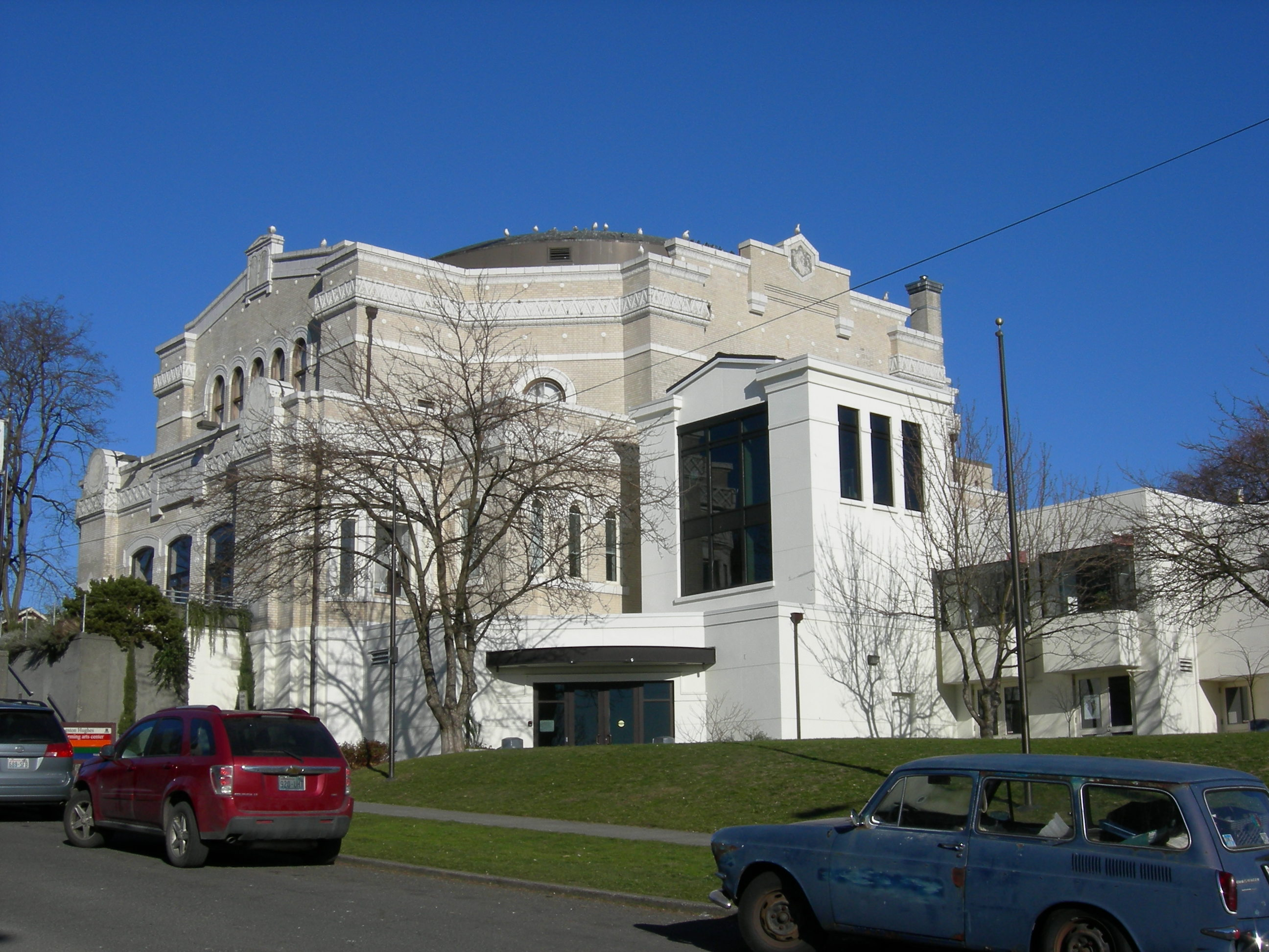 Langston Hughes Performing Arts Center, formerly the Jewish Synagogue of Chevra Bikur Cholim (1912), designed by B. Marcus Priteca; new wing is to right.